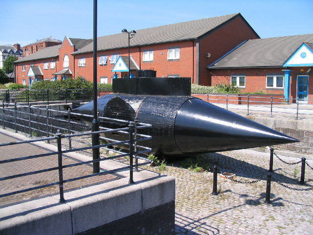 Replica of the Resurgam